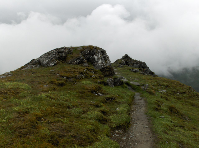 The summit, An Stuc. The cairn stands on the southern of two outcrops.